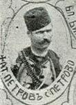 Portrait of IMARO member Atanas Petrov Ordzhanov from Petrevo